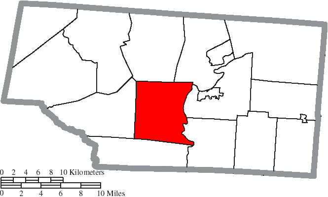 Map of the municipal and township boundaries of Pike County, Ohio, United States, as of the 2000 census, with the location of Newton Township highlighted. Township borders are shown only in unincorporated areas in order to differentiate incorporated and unincorporated areas more clearly.